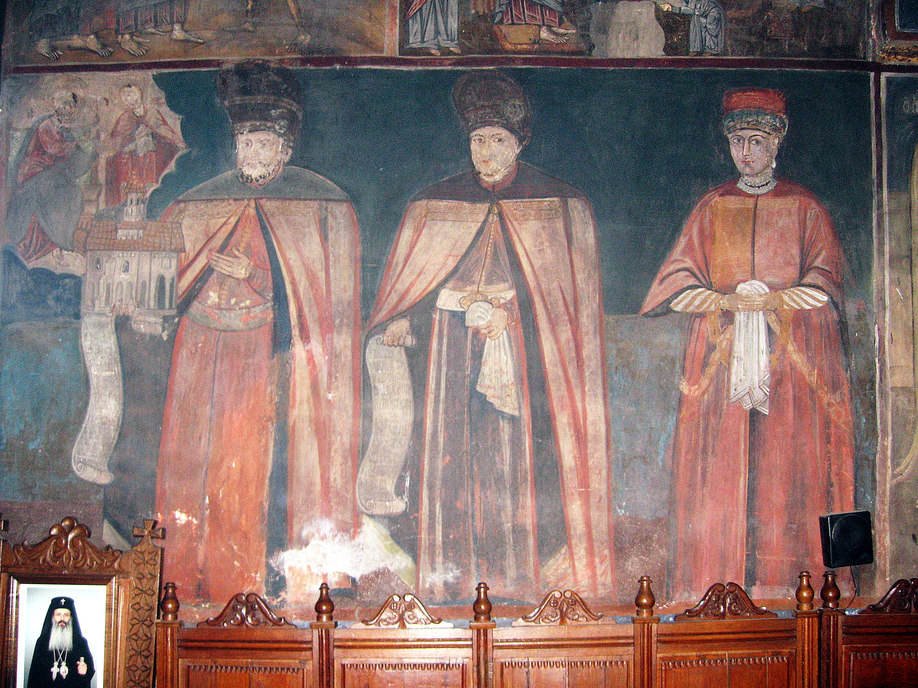 Mănăstirea Hlincea